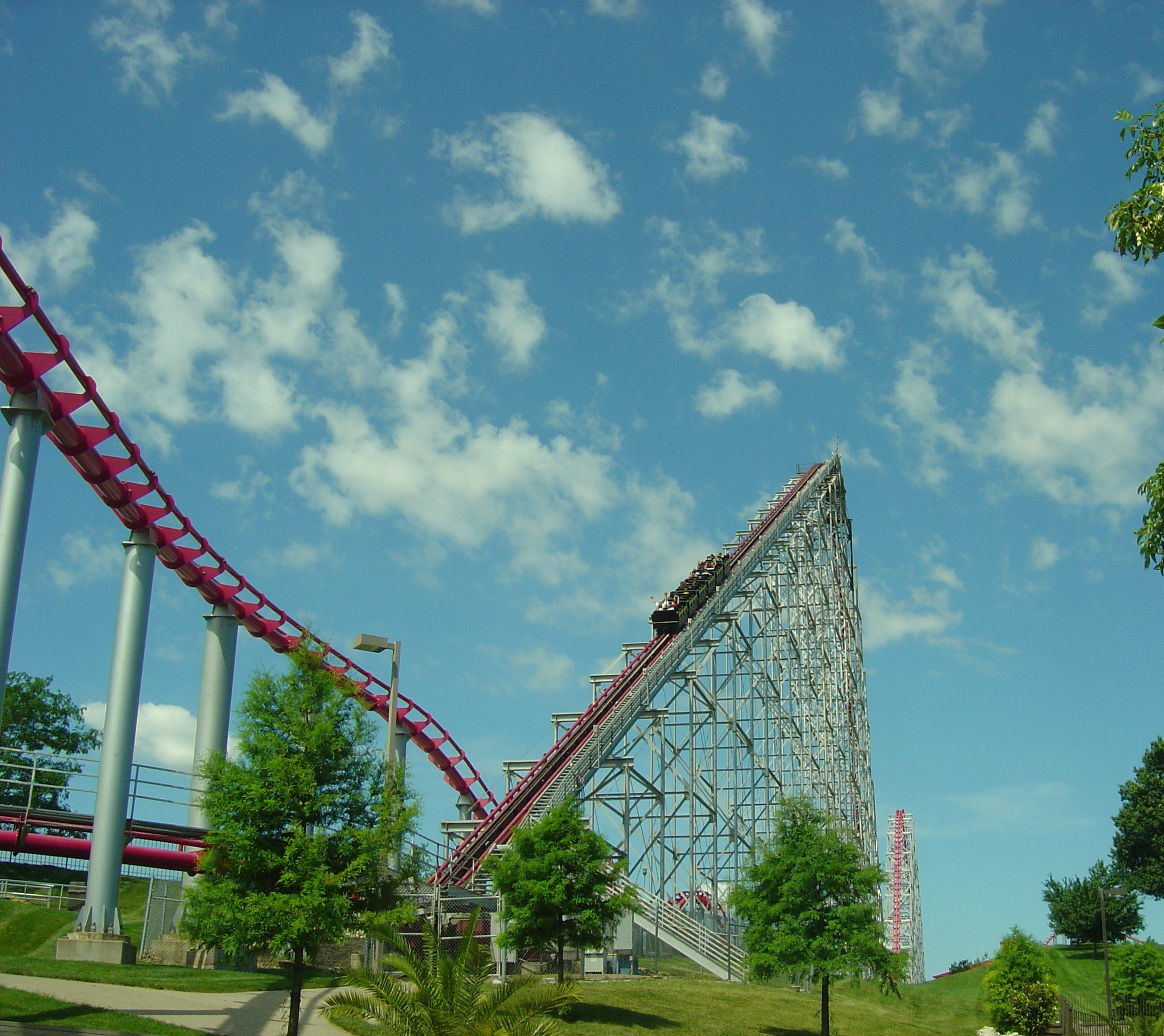 View of the lift hill of Mamba at Worlds of Fun.